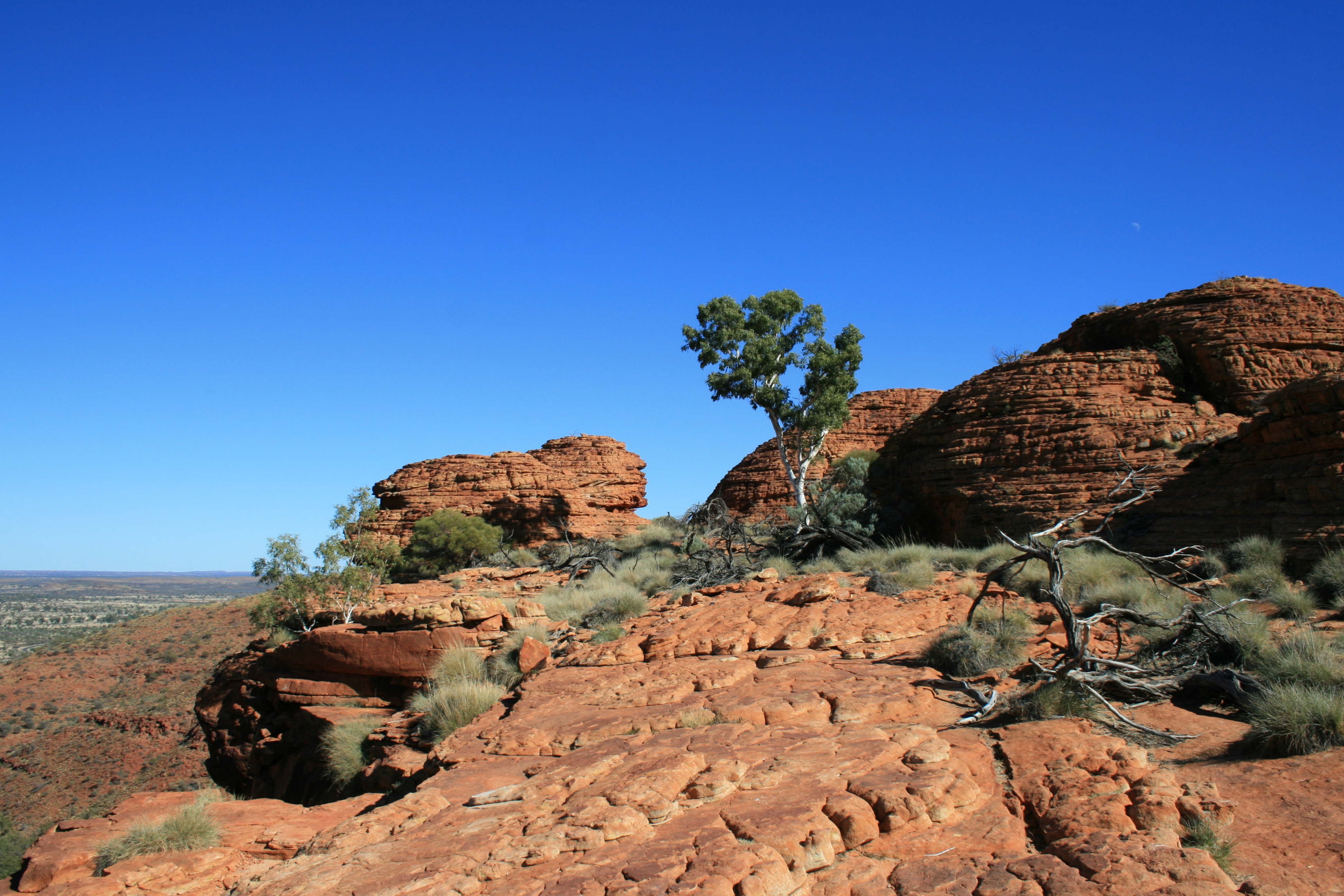 View from the lip of Kings Canyon, Northern Territory, Australia.